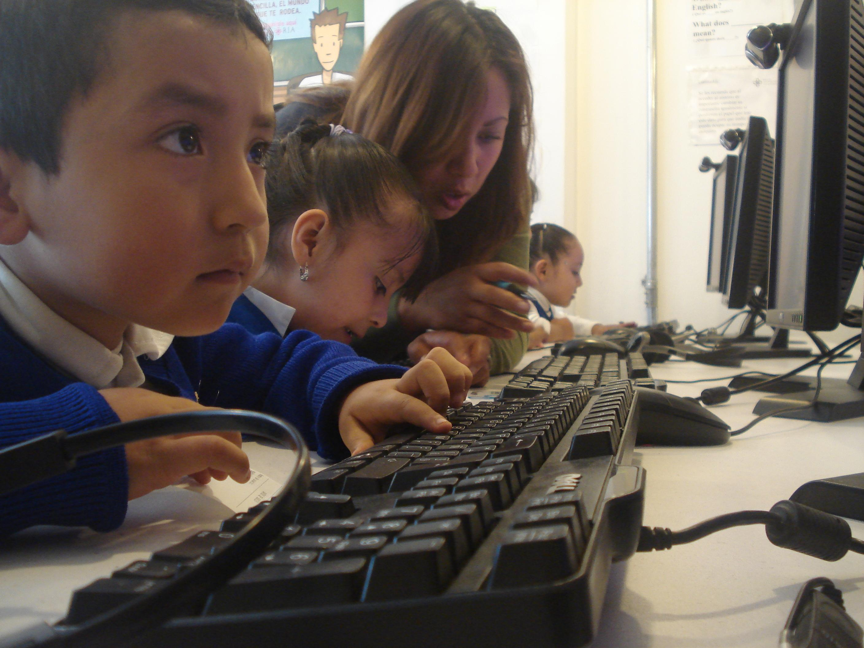 Kids studing at RIA centers